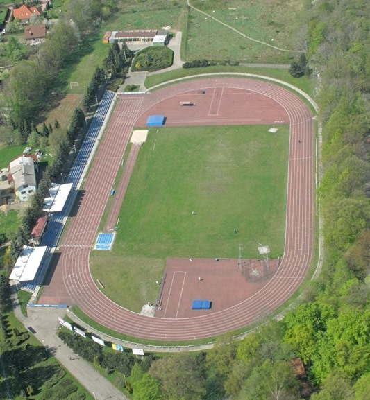 Athletic stadium in Bielsko-Biała, Poland.